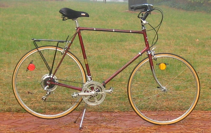 1977 Nikishi International